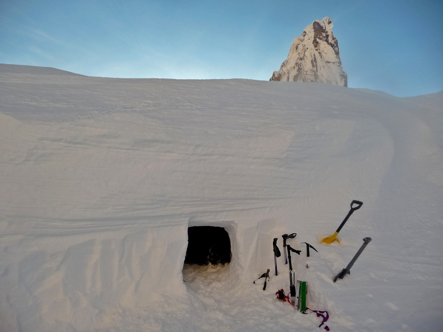 Taken December of 2011 on Mount Hood